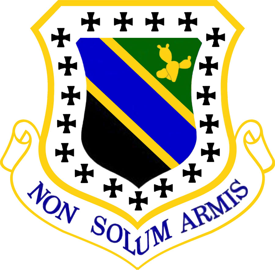 Emblem of the 3rd Wing, a wing of the United States Air Force Contents 1 Blazon 2 Significance 3 Licensing 4 Subordinate units Blazon Party per bend vert and sable in chief a cactus (prickly pear) or, a bend azure fimbriated of the third, all within a bordure argent charged with nineteen crosses patee of the second. Significance The shield is divided diagonally into the original colors of the Air Service, green and black. Over the dividing line is a band of the Air Force’s, present colors, ultramarine blue and golden yellow representative of the Rio Grande River dividing the US and Mexico. On the green field is a yellow cactus commemorating the group’s first patrols along the Mexican border. Around the shield is a white border with black German crosses equal to the number of aerial victories credited to the Group’s original squadrons during the Great War.